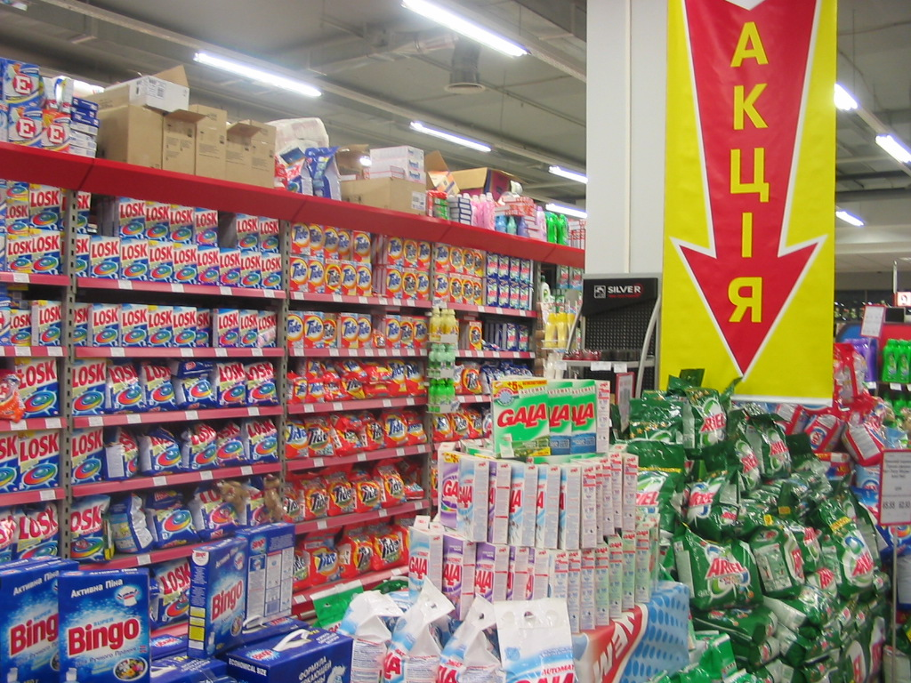 Supermarket Rodyna, Ternopil, Ukraine